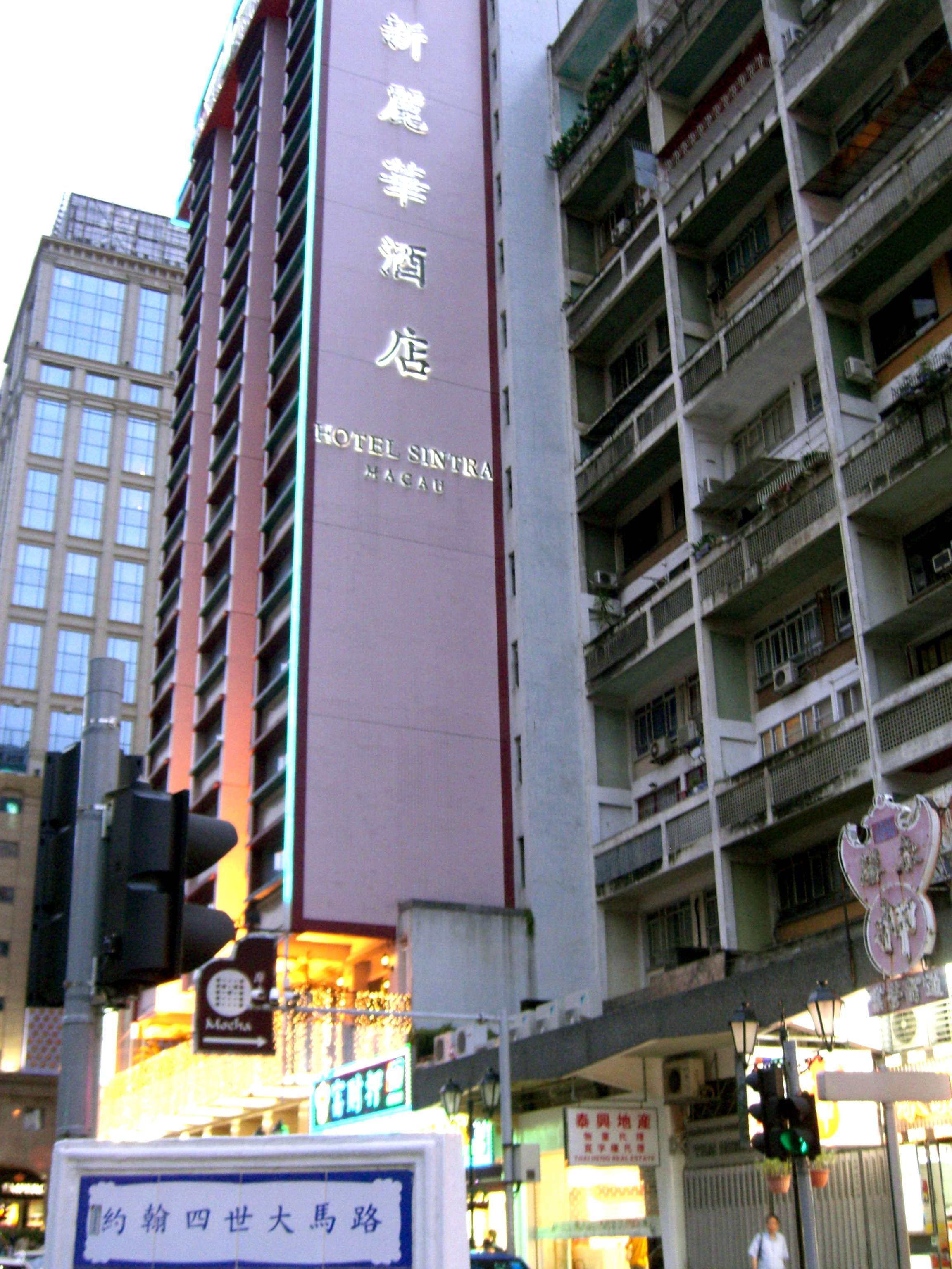 Hotel Sintra